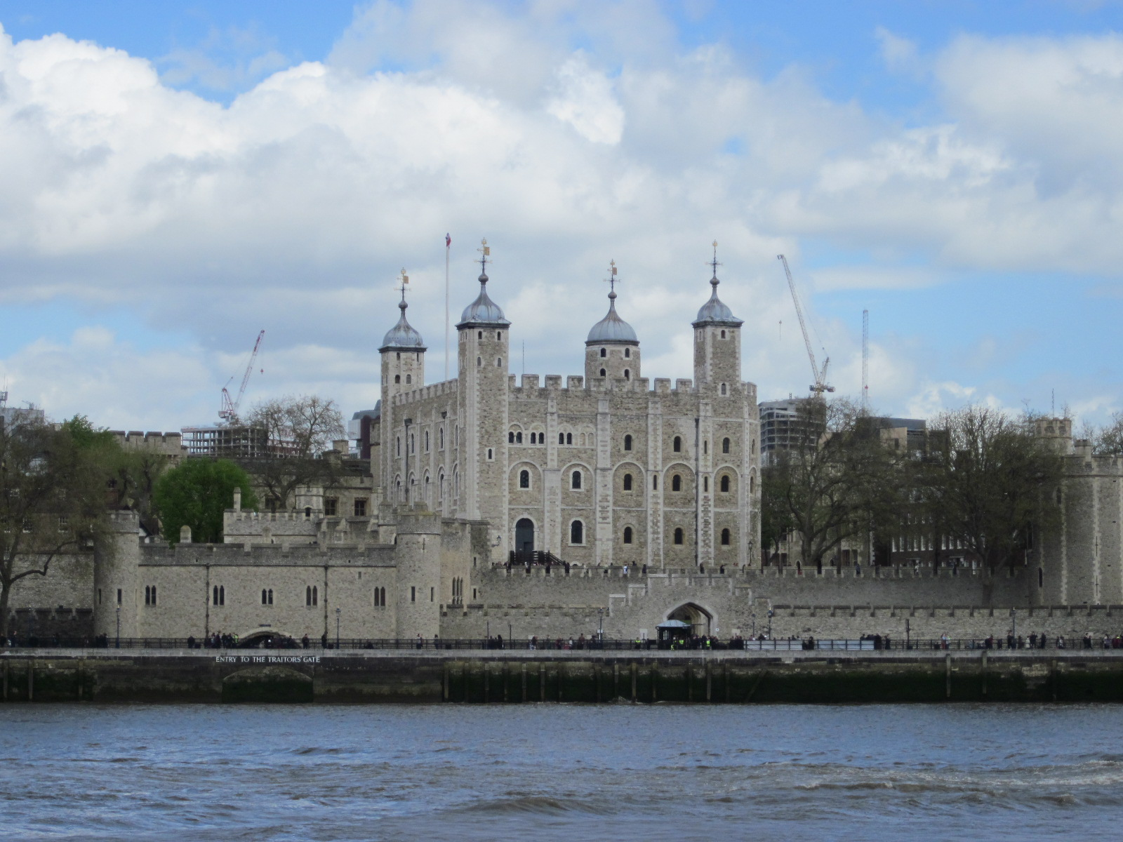 Tower of London